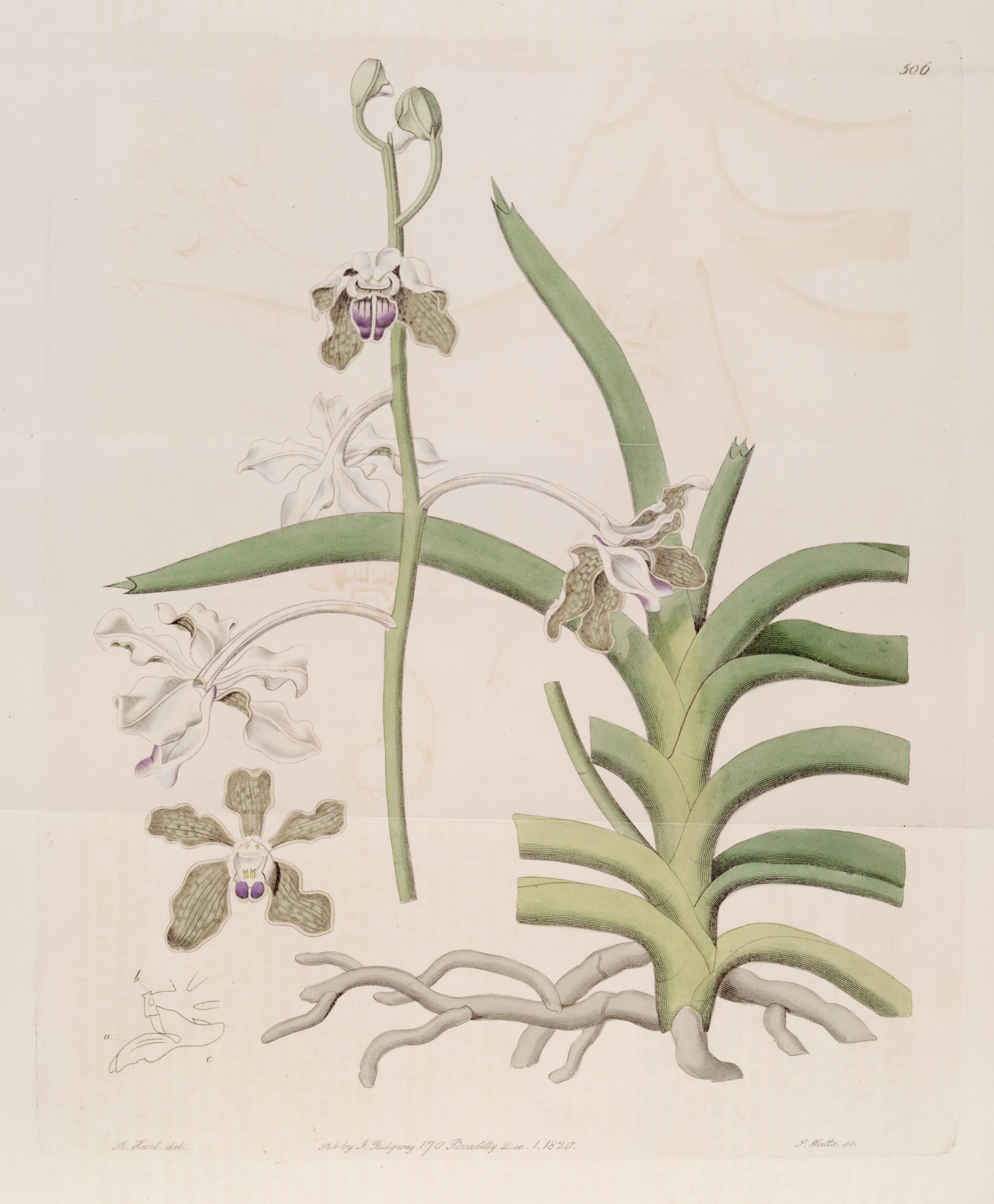 Illustration of Vanda tessellata (as syn. Vanda roxburghii)